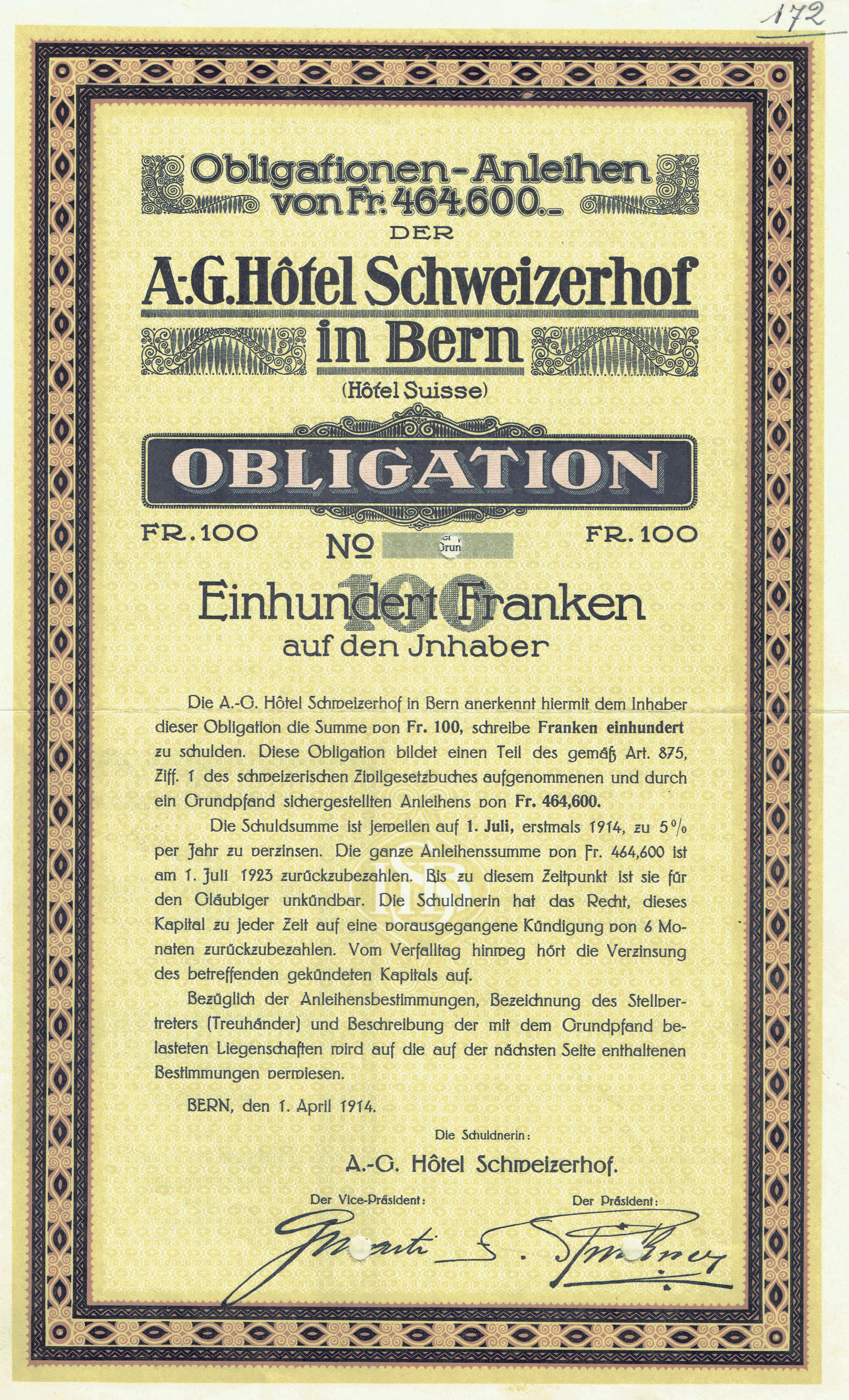 Bond of the AG Hotel Schweizerhof from 1914, unissued